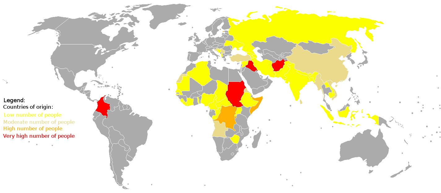 Map of world refugees in 2007. The map is focused on refugees fleeing abroad, and asylum seekers (rather than being focused on people displaced internally). The map was based on the 2007 UNHCR map The destination countries are not marked but are available via and the general direction of travel is shown on the 2008 World refugee flows map